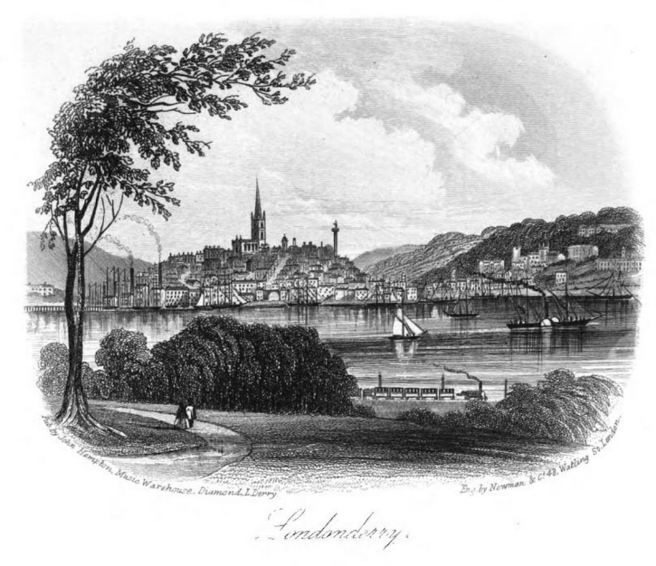 A view of Londonderry engraved in the 19th century by Newman & Co, 43 Watling St, London